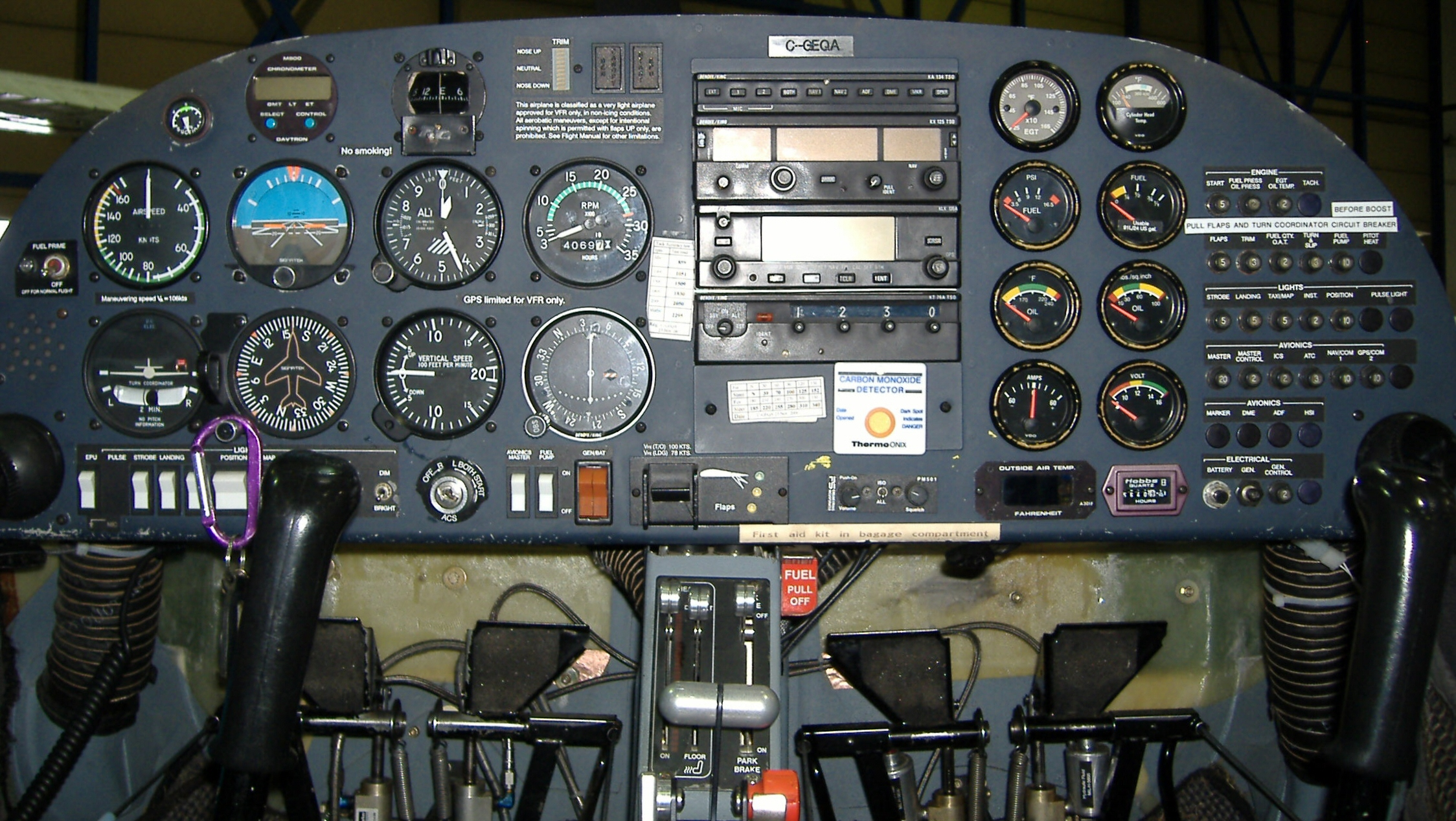 1999 Diamond DA20-C1 instrument panel. KA 134 audio panel, KX 125 NAV/COM, GPS/COM KLX 135A, KT 76A Transponder